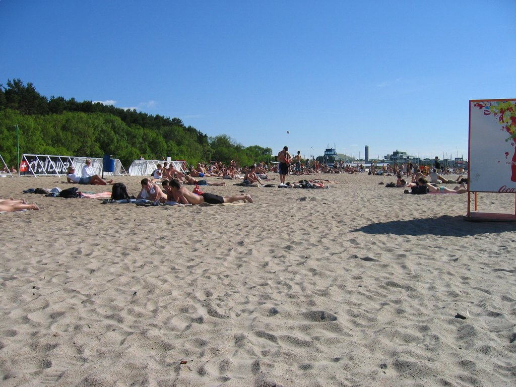 Pirita Beach, Tallinn, Estonia